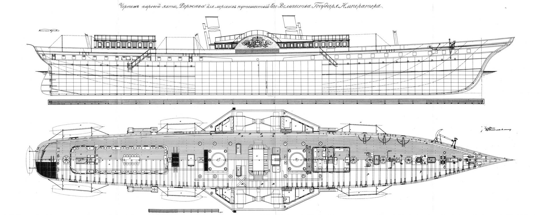 Drawings of the Derzhava, royal yacht of the House of Romanov built for the Baltic Sea service in 1866-1871. Original caption on the image (removed) read: "Russian state archive of the Navy. F 876 OP 141 D 35,39. First-time publication." The Derzhava was remotely based on the British HMY Victoria and Albert II yacht (1855).